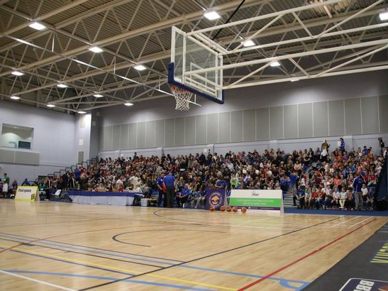 Interior of Cheshire Oaks Arena at Ellesmere Port Sports Village